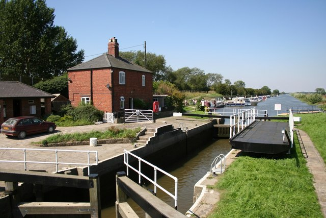 Bardney lock. Summer view of Bardney lock 95326